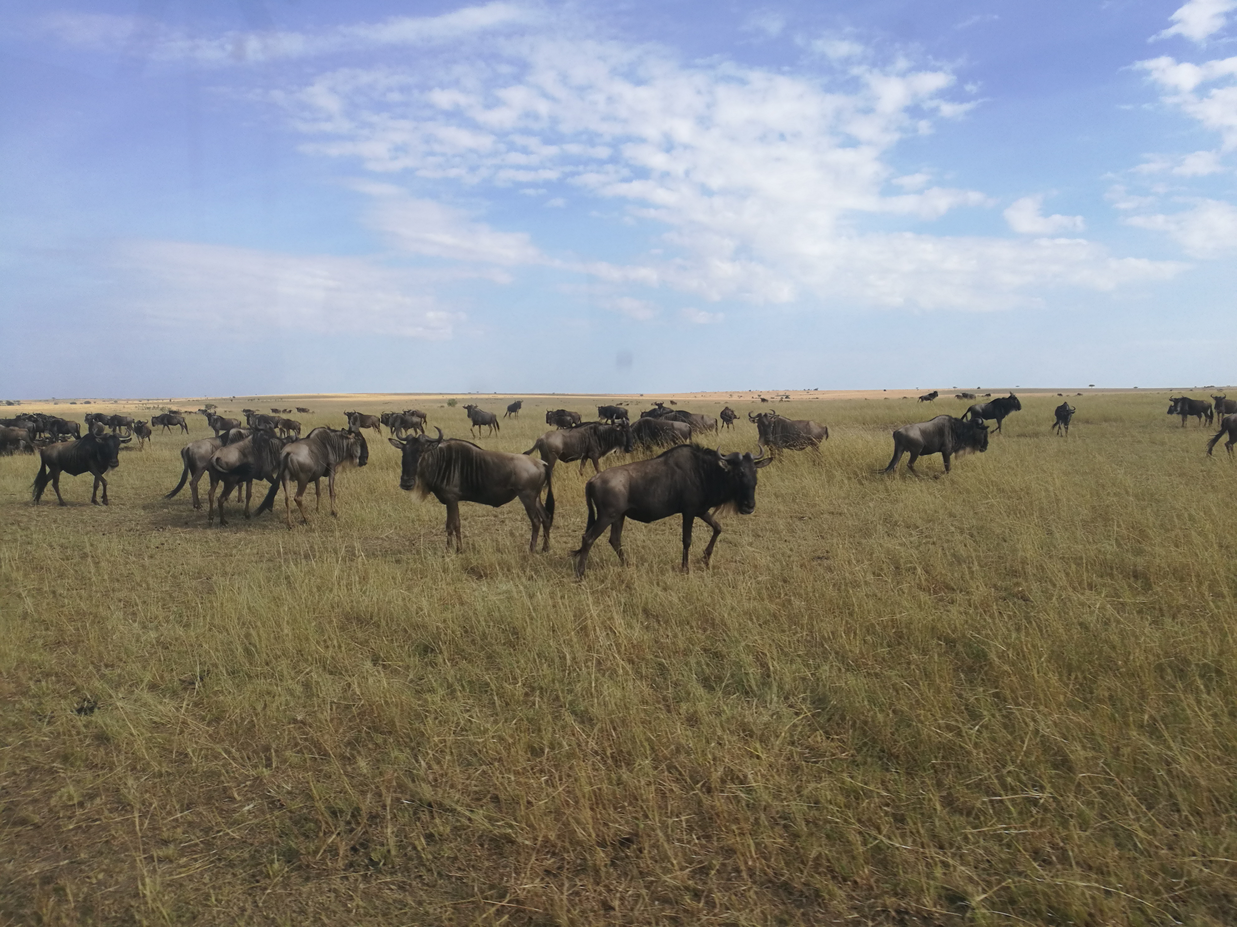 Wildebeests in Kenya.